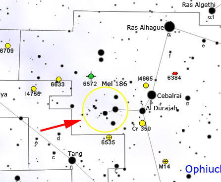 Map of Melotte 186